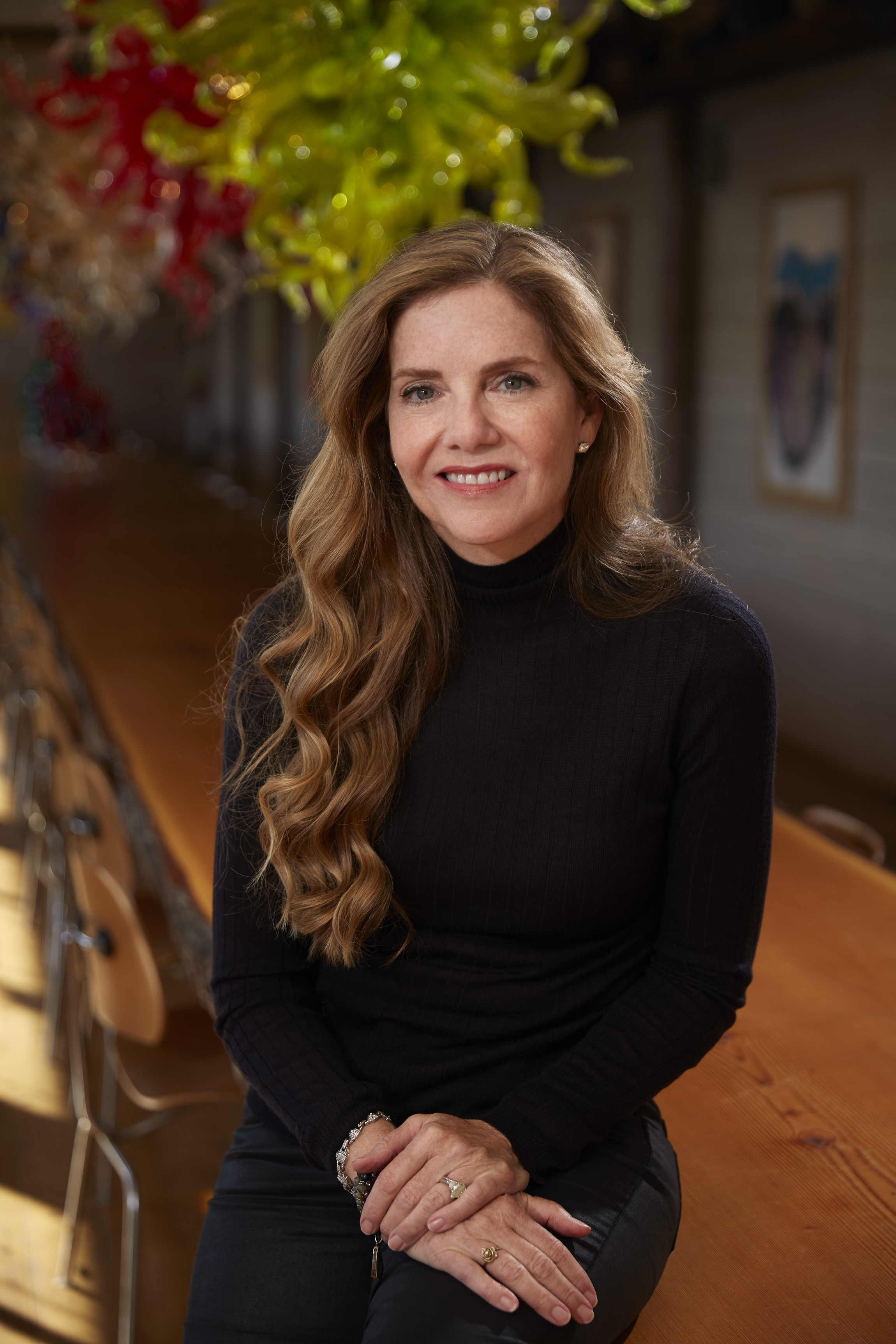 Leslie Jackson Chihuly at the Boathouse in Seattle, taken on 10/15/2018.